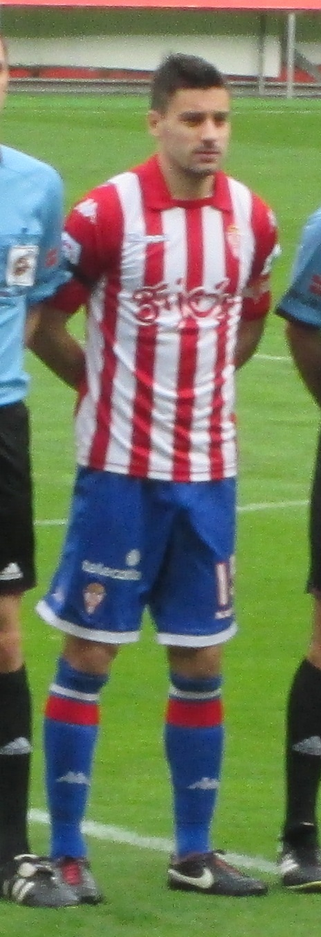 Roberto Canella